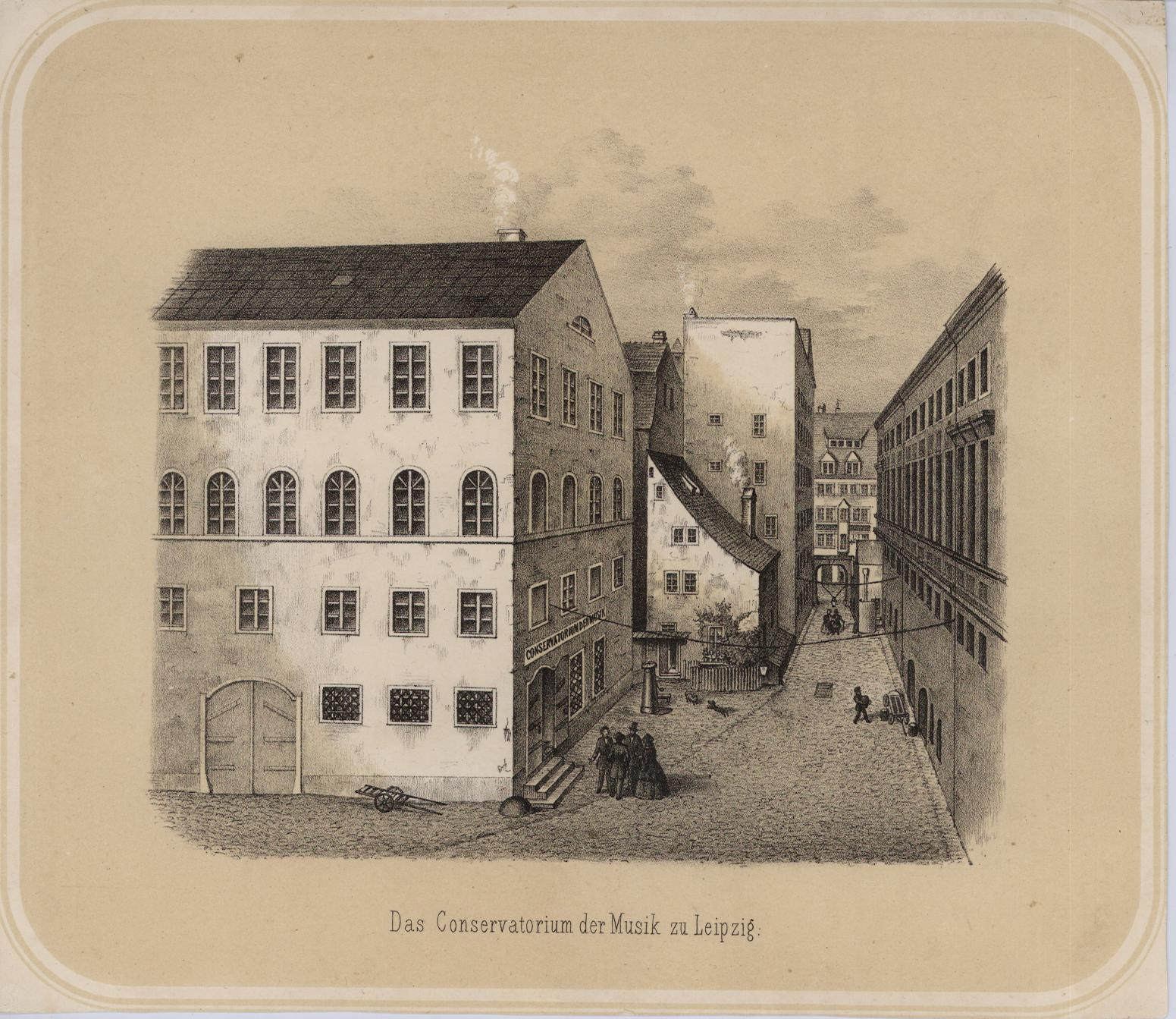 Artist: unknown Date/place: ca. 1850, Leipzig/Germany Subject: Lepizig music conservatory Medium: lithographic print Notes: none Persistent URL: [#//nettbiblioteket.no/grieg-samlingen/engelsk/grieg_intro_eng.html” Original belongs to the Edvard Grieg Archives at Bergen Public Library]